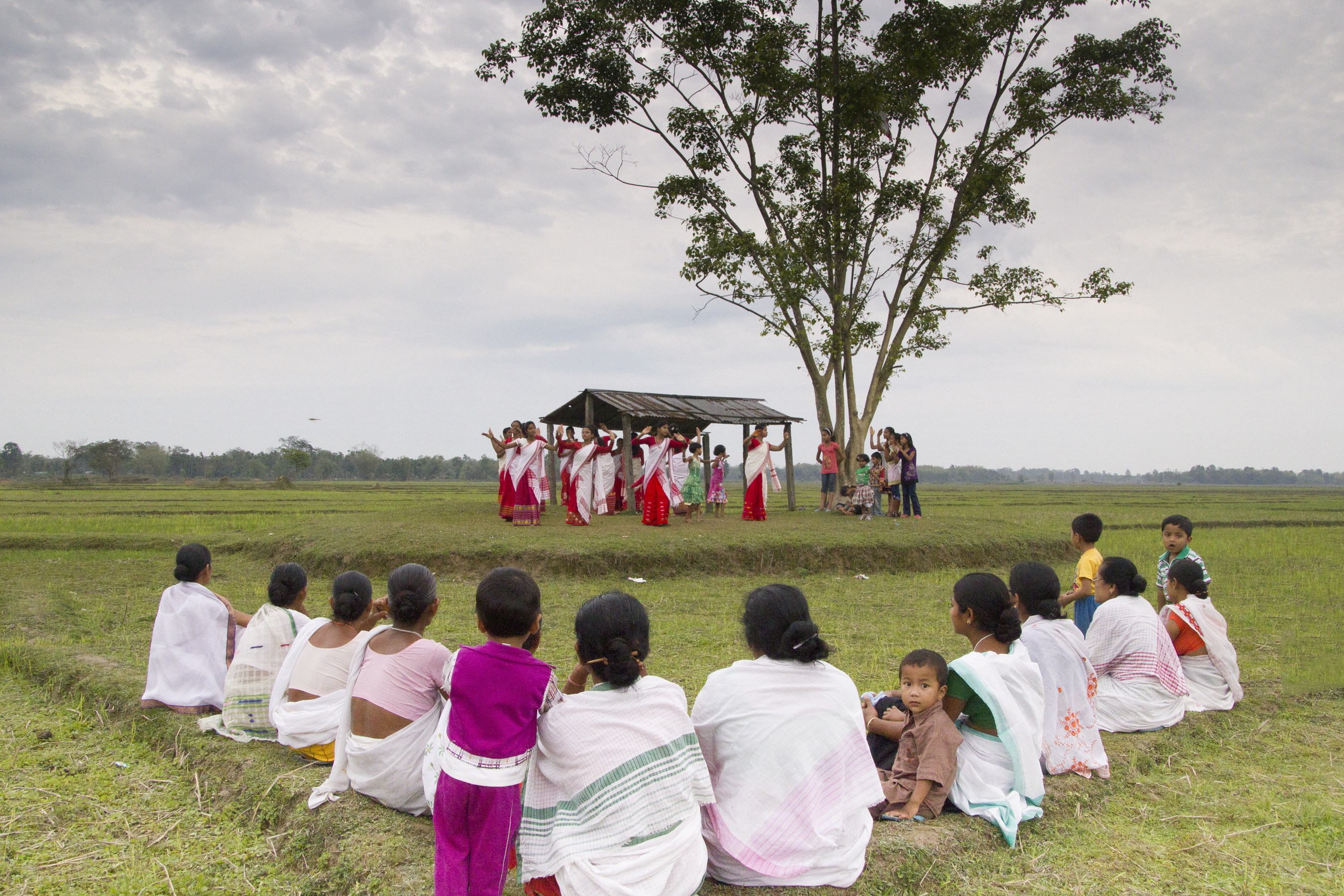 The Bihu dance (Assamese: বিহু নৃত্য, Hindi: बिहू नृत्य) is a folk dance from the Indian state of Assam related to the festival of Bihu. This joyous dance is performed by both young men and women, and is characterized by brisk dance steps,and rapid hand movement. Dancers wear traditionally colorful Assamese clothing.